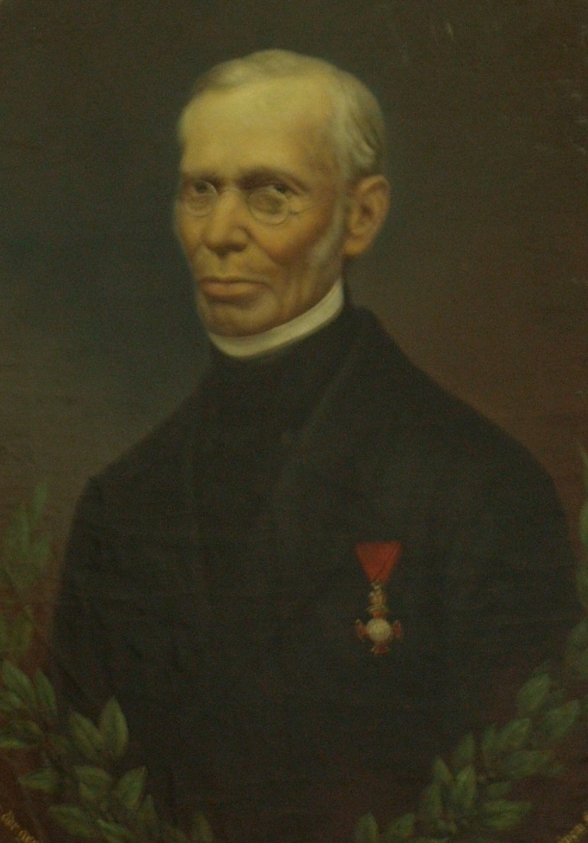 Foto of portrait Gottfried Menzel from Frydlant town museum (Czech republic).